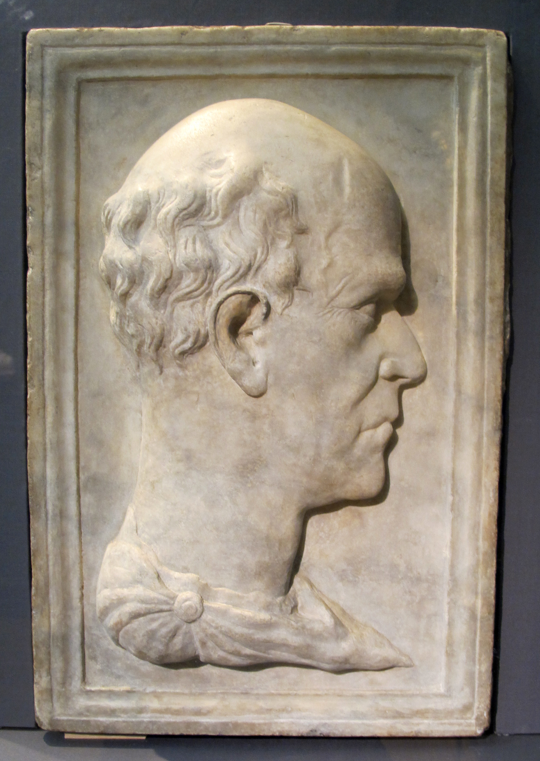 Sculptures in the Metropolitan Museum of Art